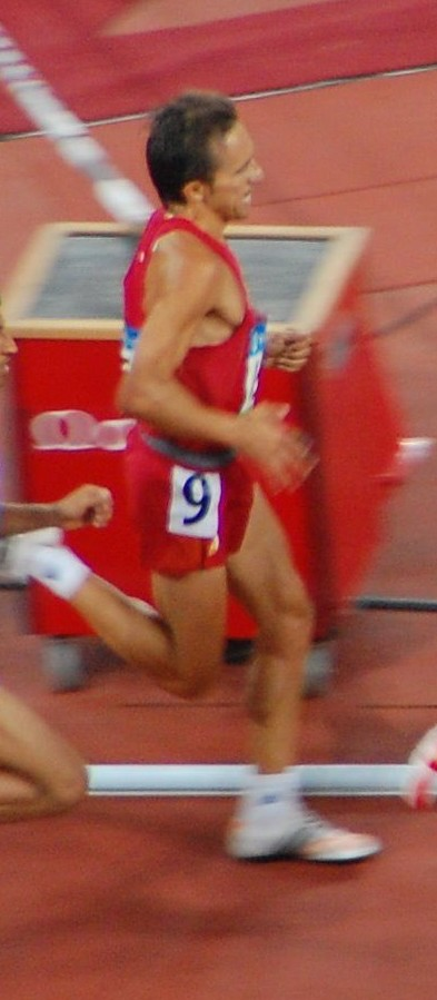 Alberto García, 2008 Summer Olympics - Men's 5000m Round 1 - Heat 3